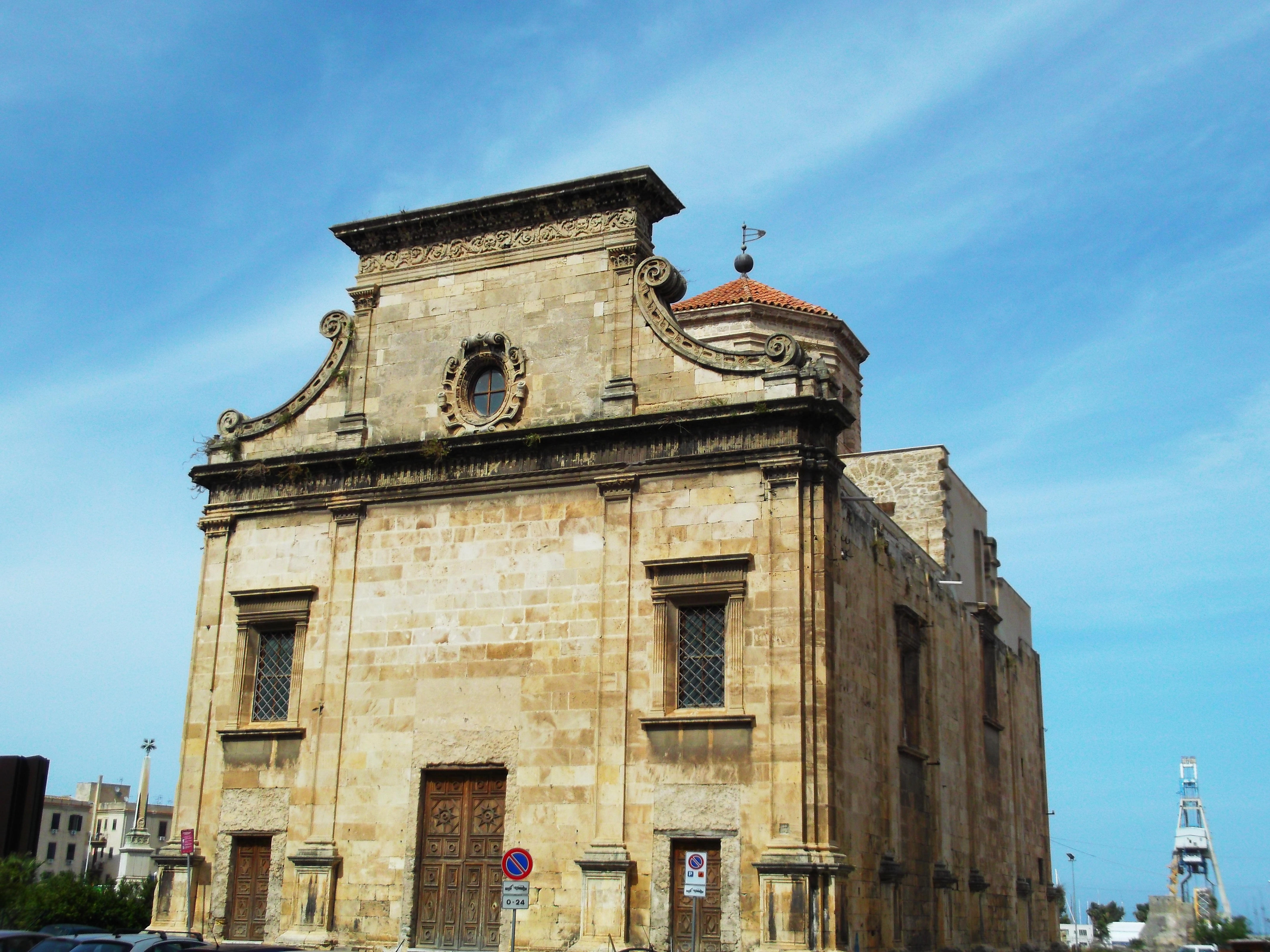 facade